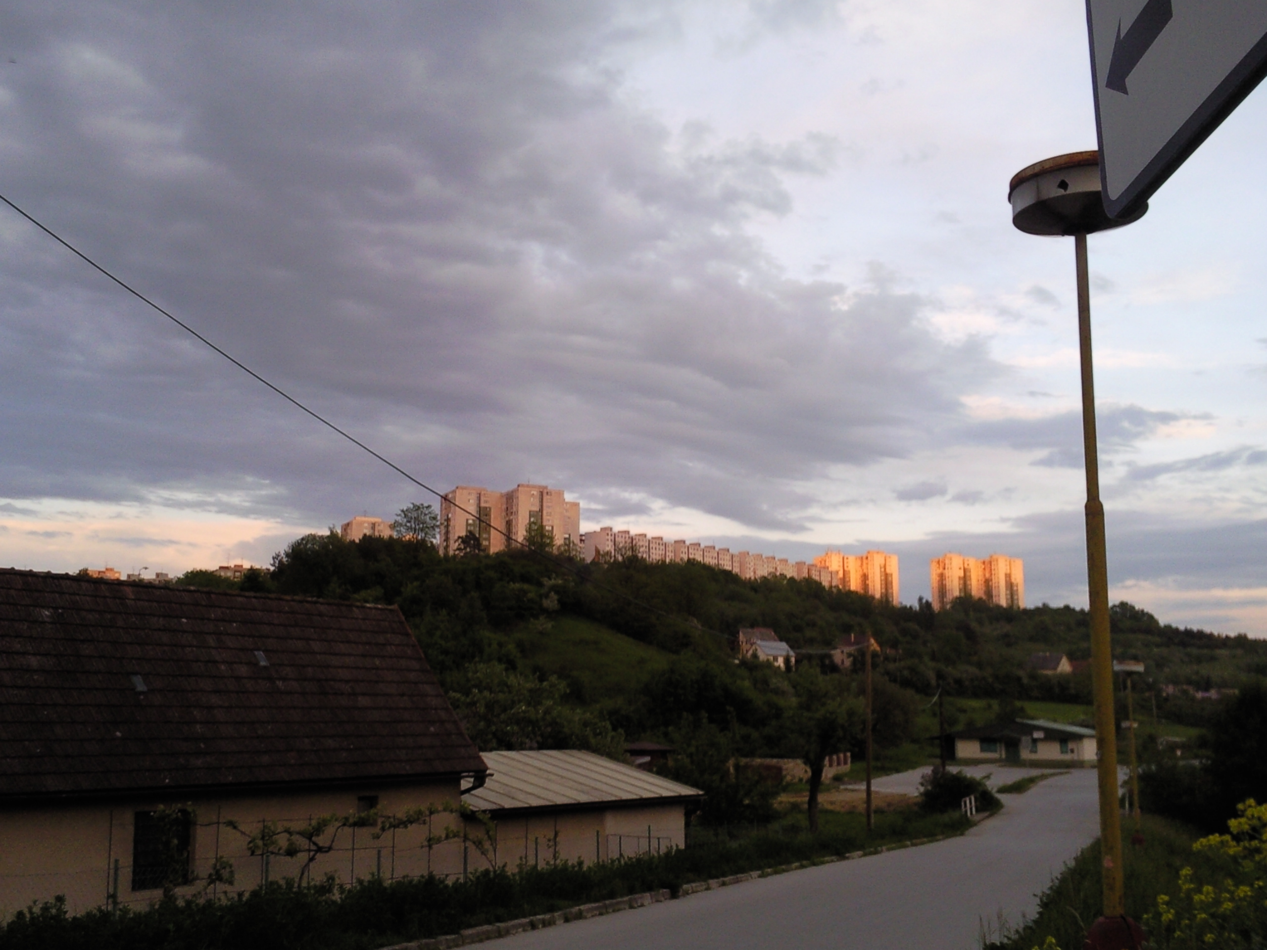 Rozkvet in Považská Bystrica